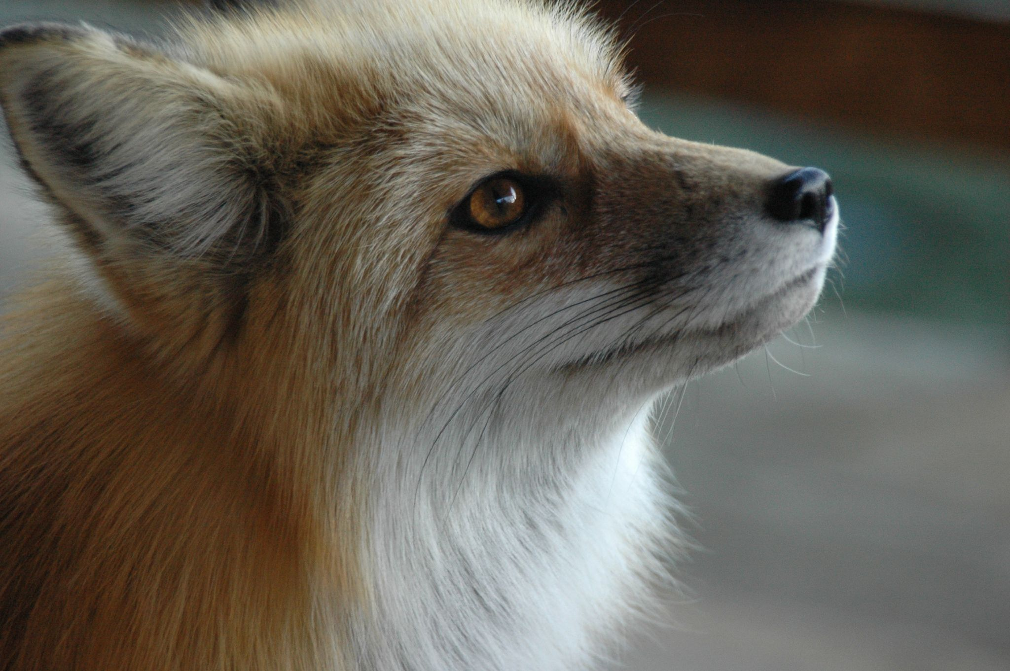 I was lucky and had my telephoto lens (200mm) on the camera when he came for a visit. He's sporting his winter look. Here he is last spring when he was younger (same angle): Freddy as a baby